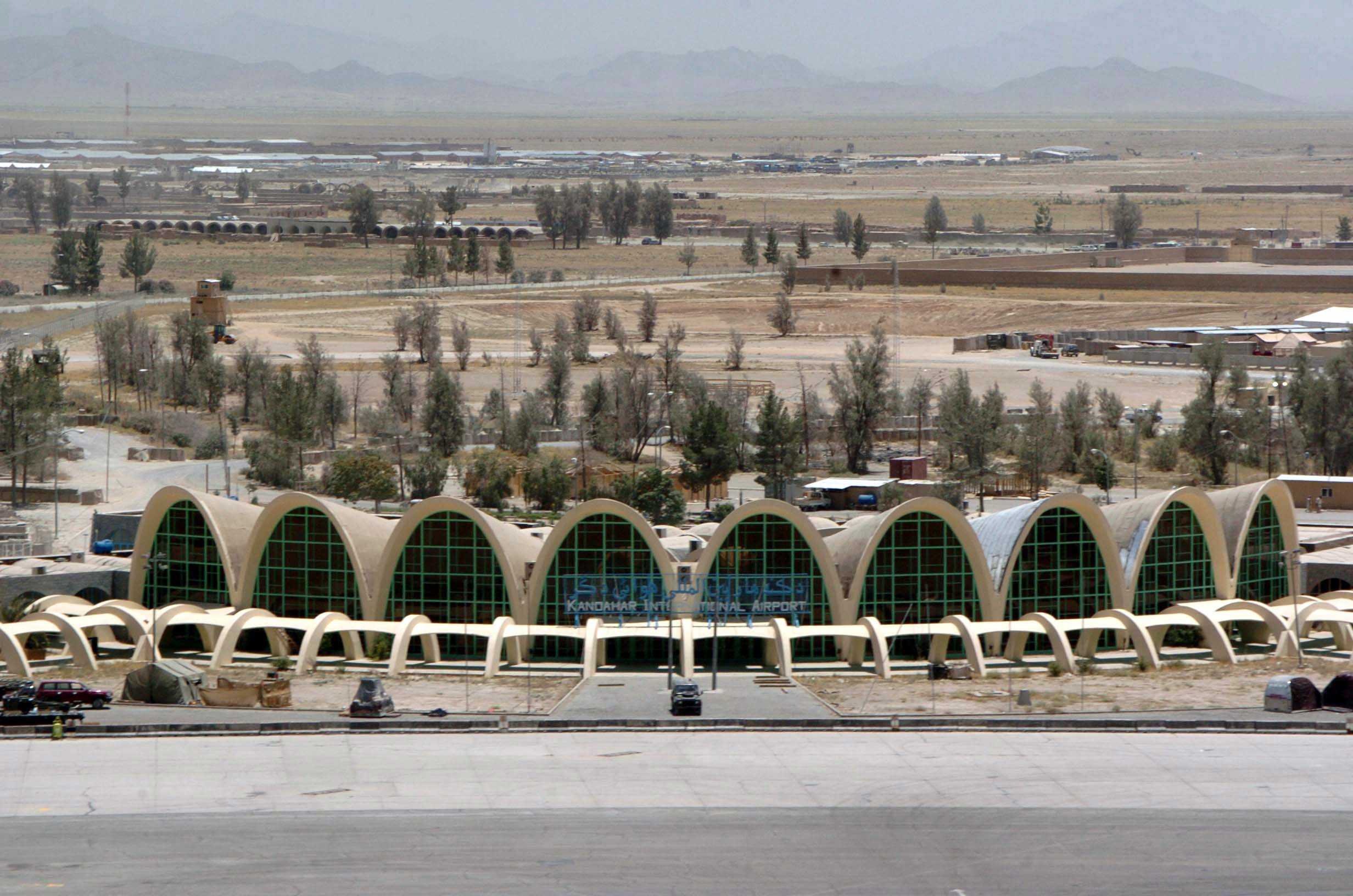 An aerial view of the Kandahar Airport in Kandahar, Afghanistan, June 22, 2005. U.S. Army photo by Spc. Jerry T. Combes